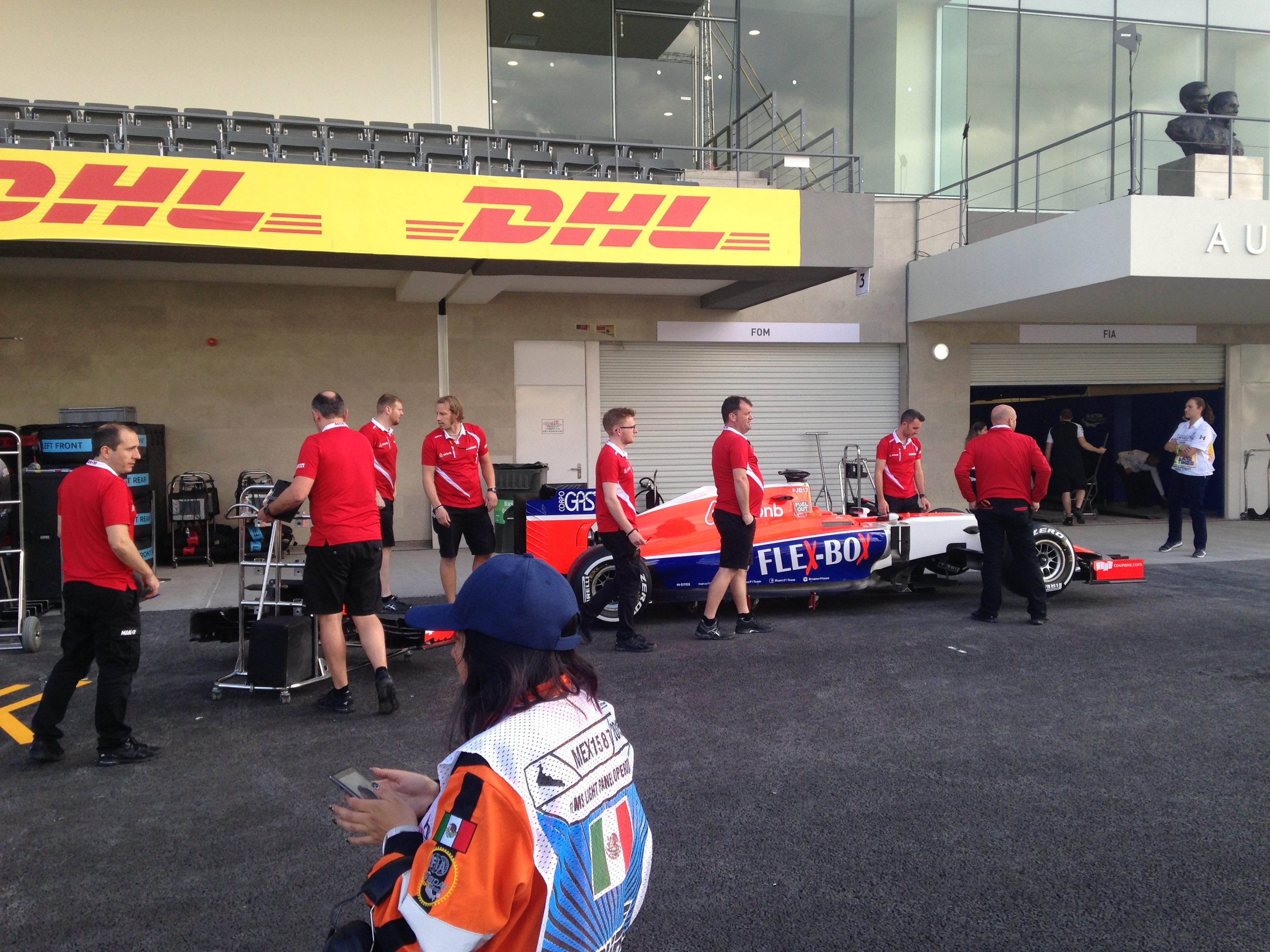 PitWalk Mexican Grand Prix 2015, Autódromo Hermanos Rodríguez. Mexico City, Mexico.